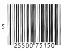 Line art drawing of a barcode.